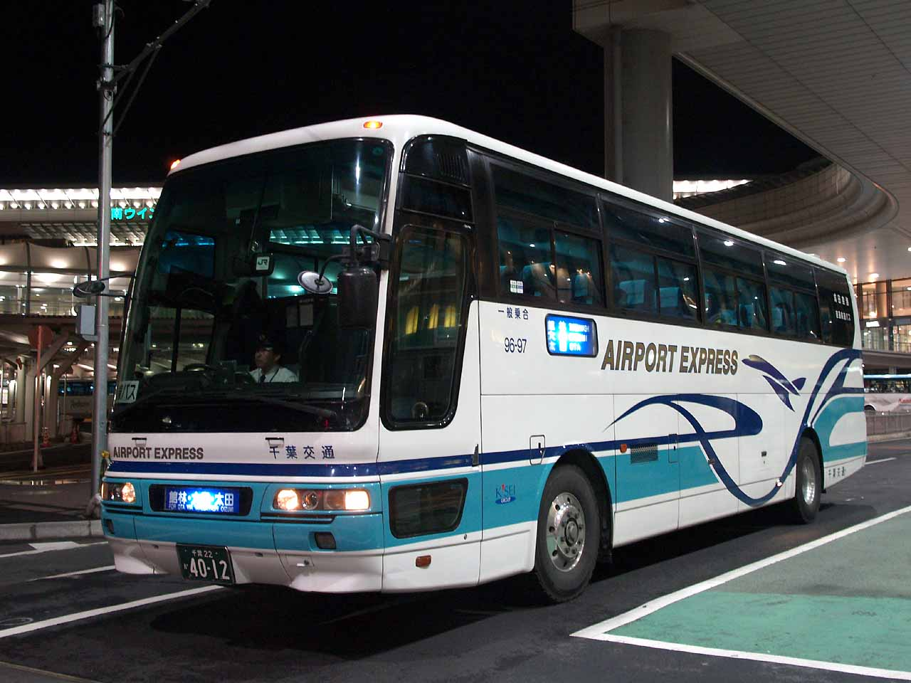 Chiba Kotsu Narita airport and Ota, Gunma route "Maple". (ex. NRT and Maebashi, Gunma route "Azalea") Model: Mitsubishi Fuso Aero Queen I KC-MS822P License Plate: CBC22 KA4012 Place: Narita International Airport: Narita city, Chiba Japan 千葉交通が運行する群馬県太田・館林行きの成田空港リムジンバス「メープル」。 型式：三菱ふそうエアロクィーンI KC-MS822P 登録番号：千葉22か4012（元「アザレア」専用車）